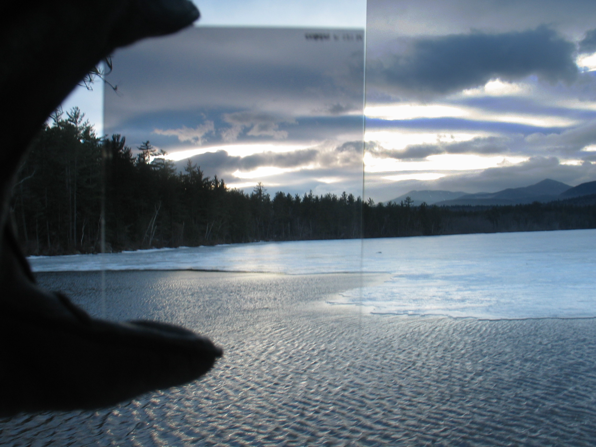 Based on Image:GND_demo.jpg but with GIMP-produced GND effect next to actual GND filter. This shows the limitations of post-production as compared with a GND filter.